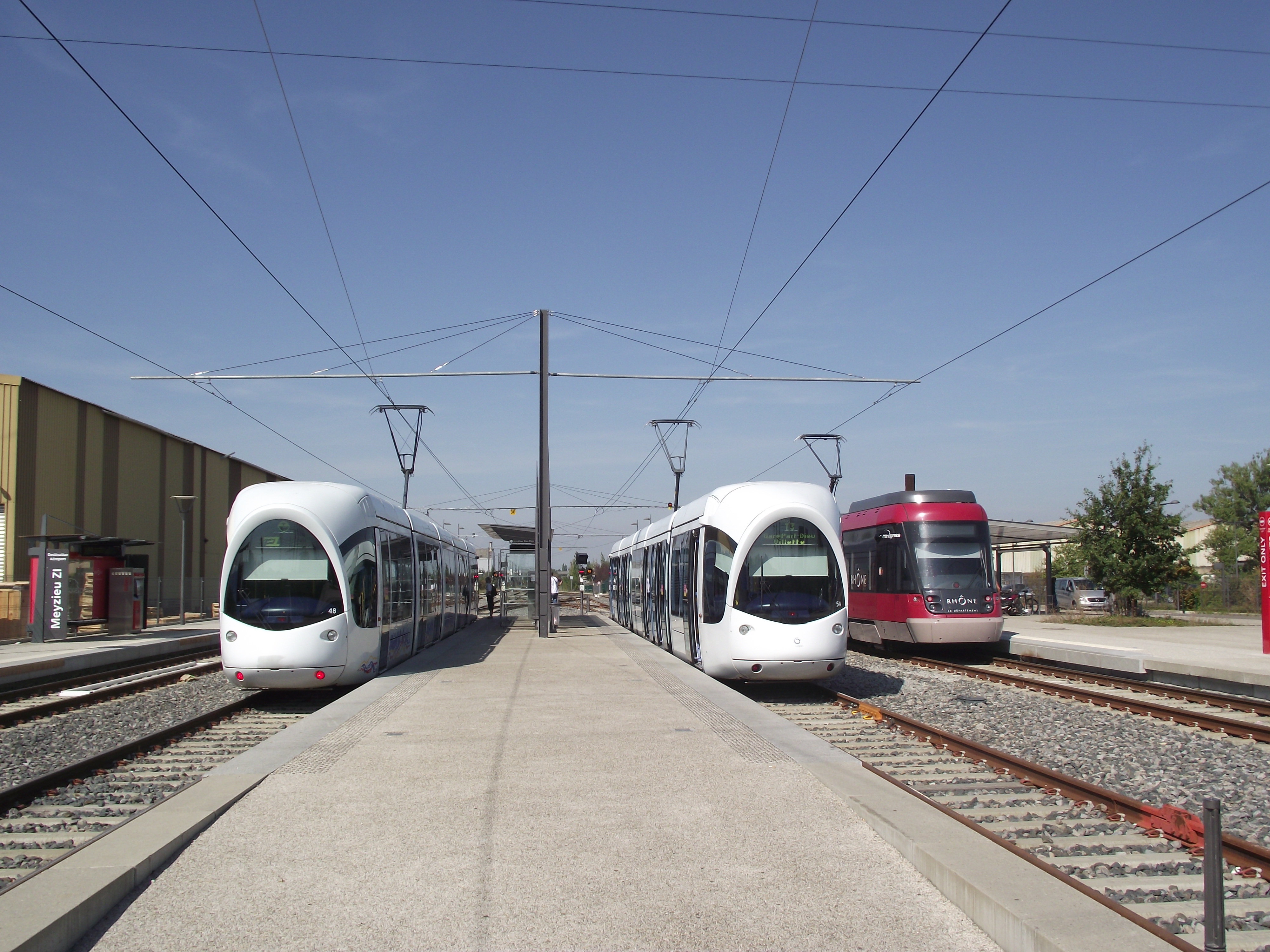 Two T3 trams and Rhônexpress tram for the city at Meyzieu Z.I.